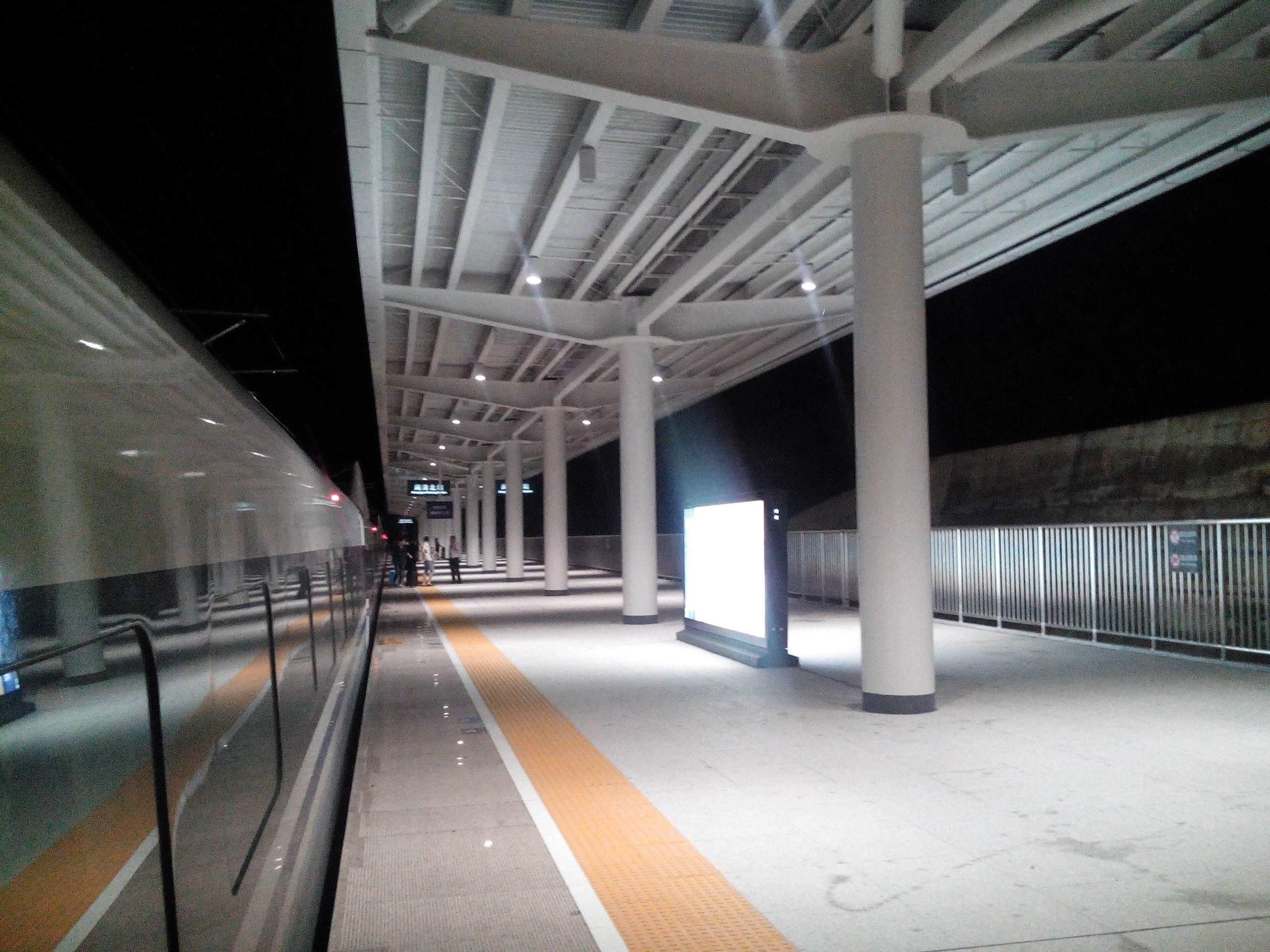 201508 Platform of Minqingbei Station